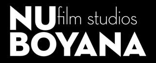 One of the logos of Nu Boyana Film Studios, Bulgaria.